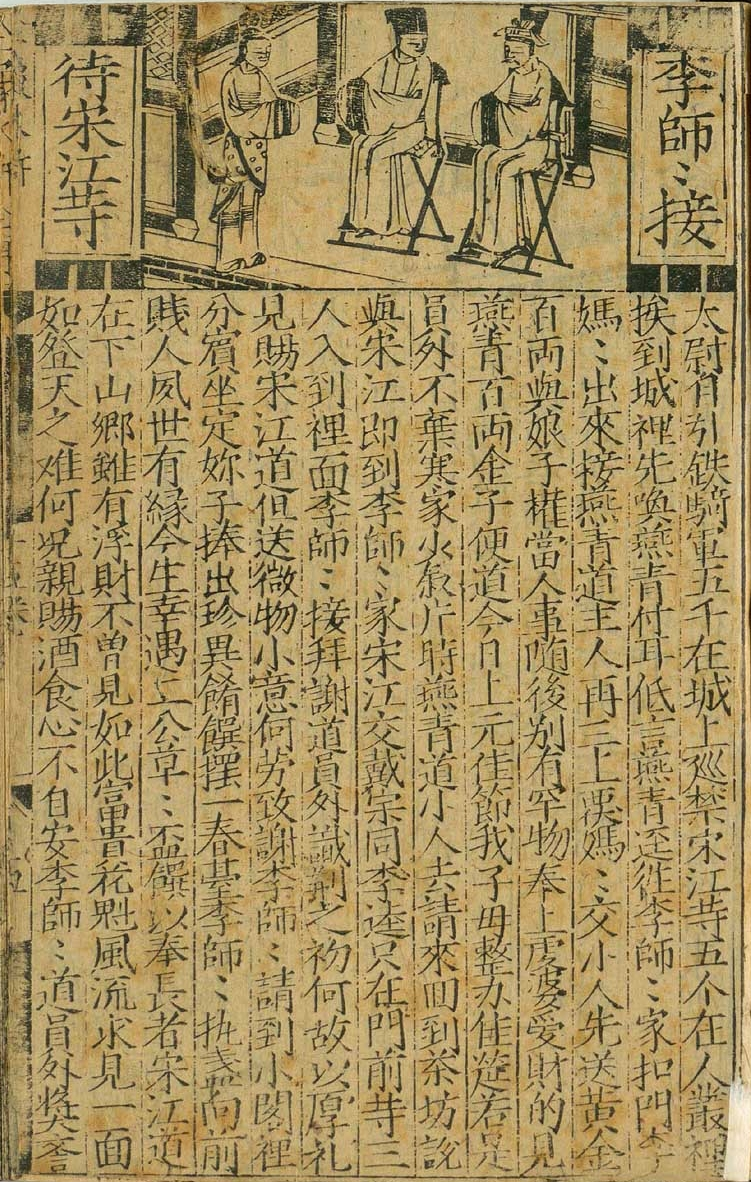 Shuihu zhuan, juan 15-19 Part 15 to 19 (juan), chapters 73 to 98 (hui) from the novel 水滸傳 (Shuihu zhuan, 'Water margin'). Block-print, dating from ca. 1600, brought to Denmark in the early part of 17th Century in connection with the decoration work of some of the rooms in the Rosenborg castle in Copenhagen. OA 102-145(MS)